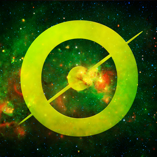 Official Zooniverse avatar for Milky Way